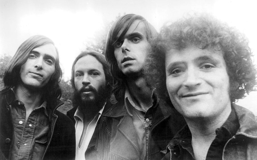 Photo of musical group Quicksilver Messenger Service in 1970. From left-John Cipollina, Greg Elsmore, Nicky Hopkins and David Freiberg. Cipollina and Freiberg founded the group.